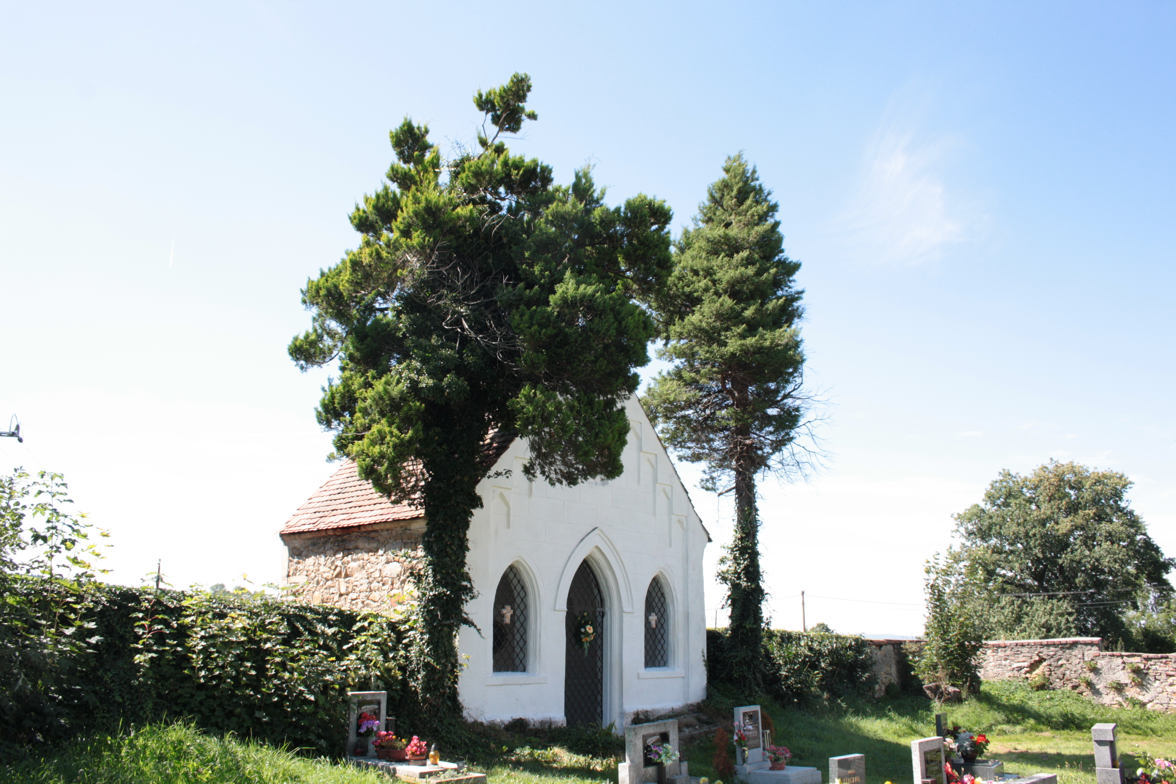 This photograph was taken with a DSLR from WMCZ's Camera grant. Kaple na hřbitově v Ludvíkově pod Smrkem.